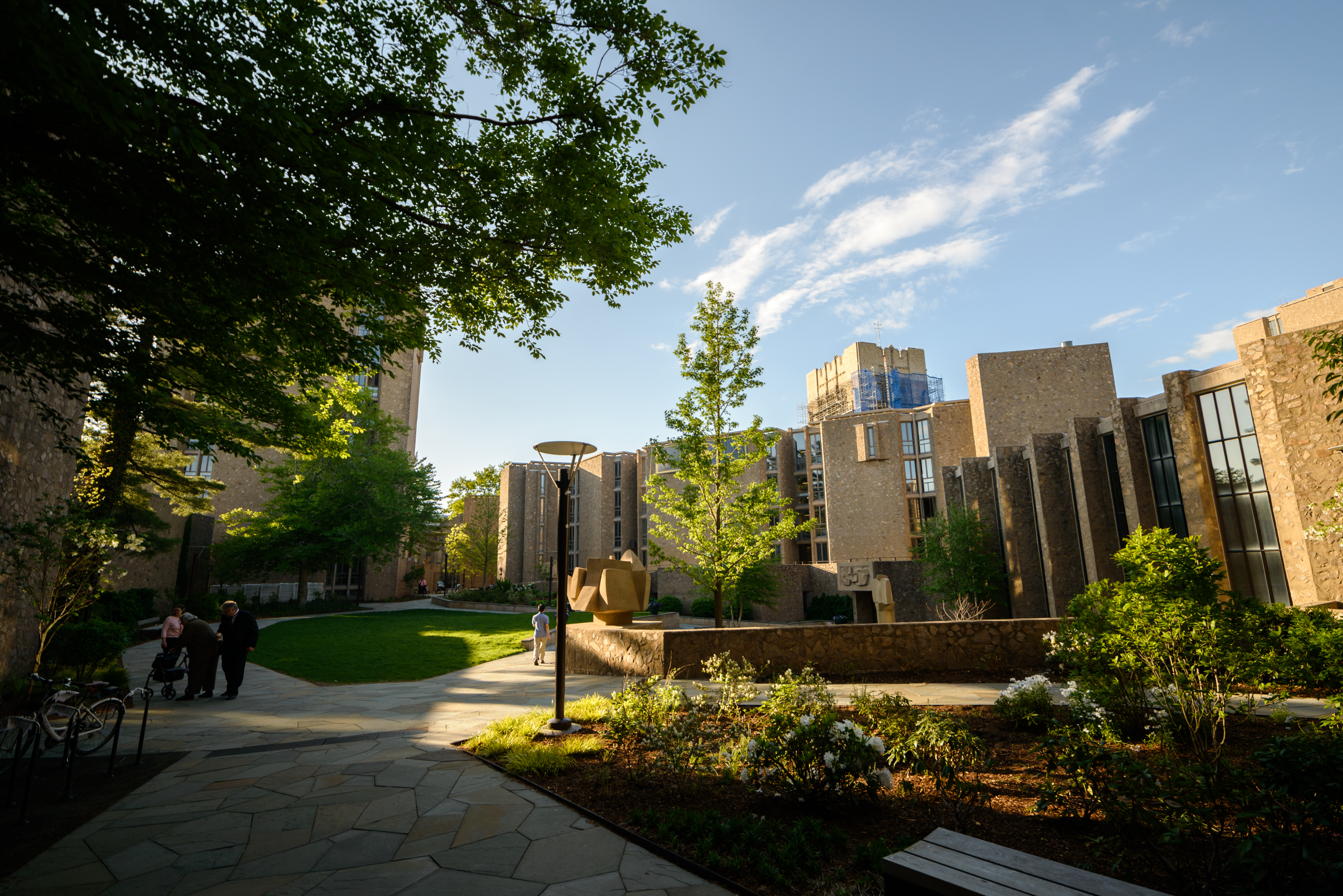 Courtyard of Ezra Stiles College of Yale University in New Haven, Connecticut during Commencement weekend in 2014. Payne Whitney Gymnasium (with blue scaffolding) is visible in the background.